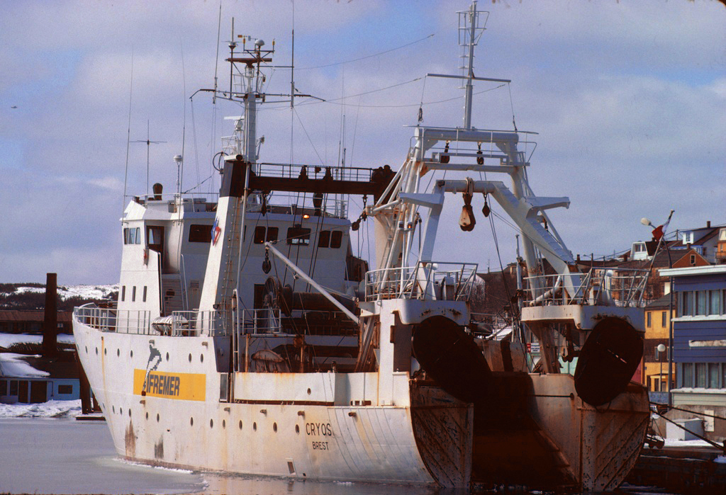 Frech Fishing vessel, St John's, circa 1985